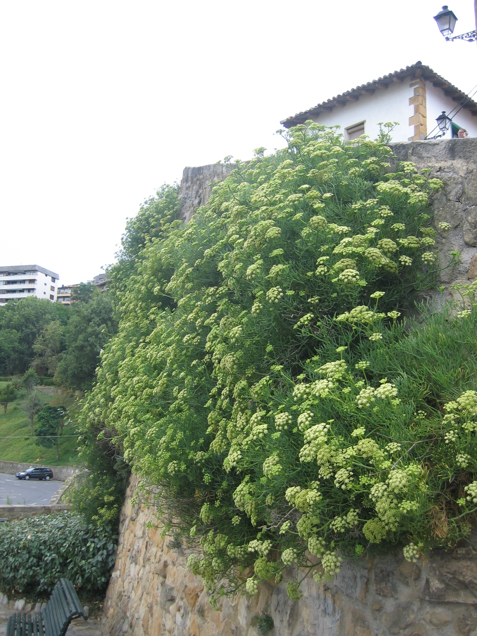 Rock samphire, Crithmum maritimum. This photograph was taken on 2008-08-01 near the port of Bilbao in the Bizkaia province of the Basque Country (Europe), using a Canon PowerShot S50 camera.The original size was 2592x1944 pixels, it was reduced to the present size (1296x972 pixels) using the IrfanView freeware program.